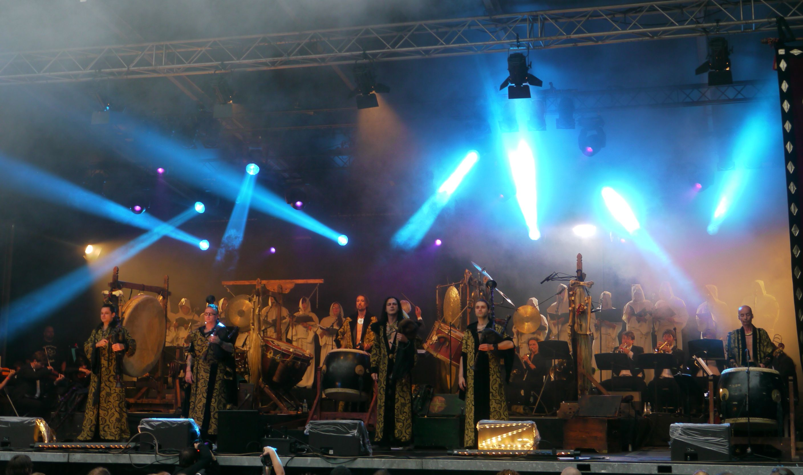 Corvus Corax at Castlefest, Aug 8, 2011